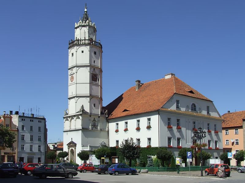 Paczków (Opole Voivodeship, Poland) - town square and city hall.